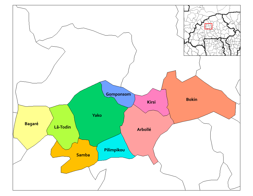 This map has been uploaded by Osiris fancy from to enable the Wikimedia Atlas of the World. Original uploader to was Rarelibra. Osiris fancy is not the creator of this map. Licensing information is below. Map of the departments of Passore province in Burkina Faso. Created by Rarelibra 03:32, 30 September 2006 (UTC) for public domain use, using MapInfo Professional v8.5 and various mapping resources.